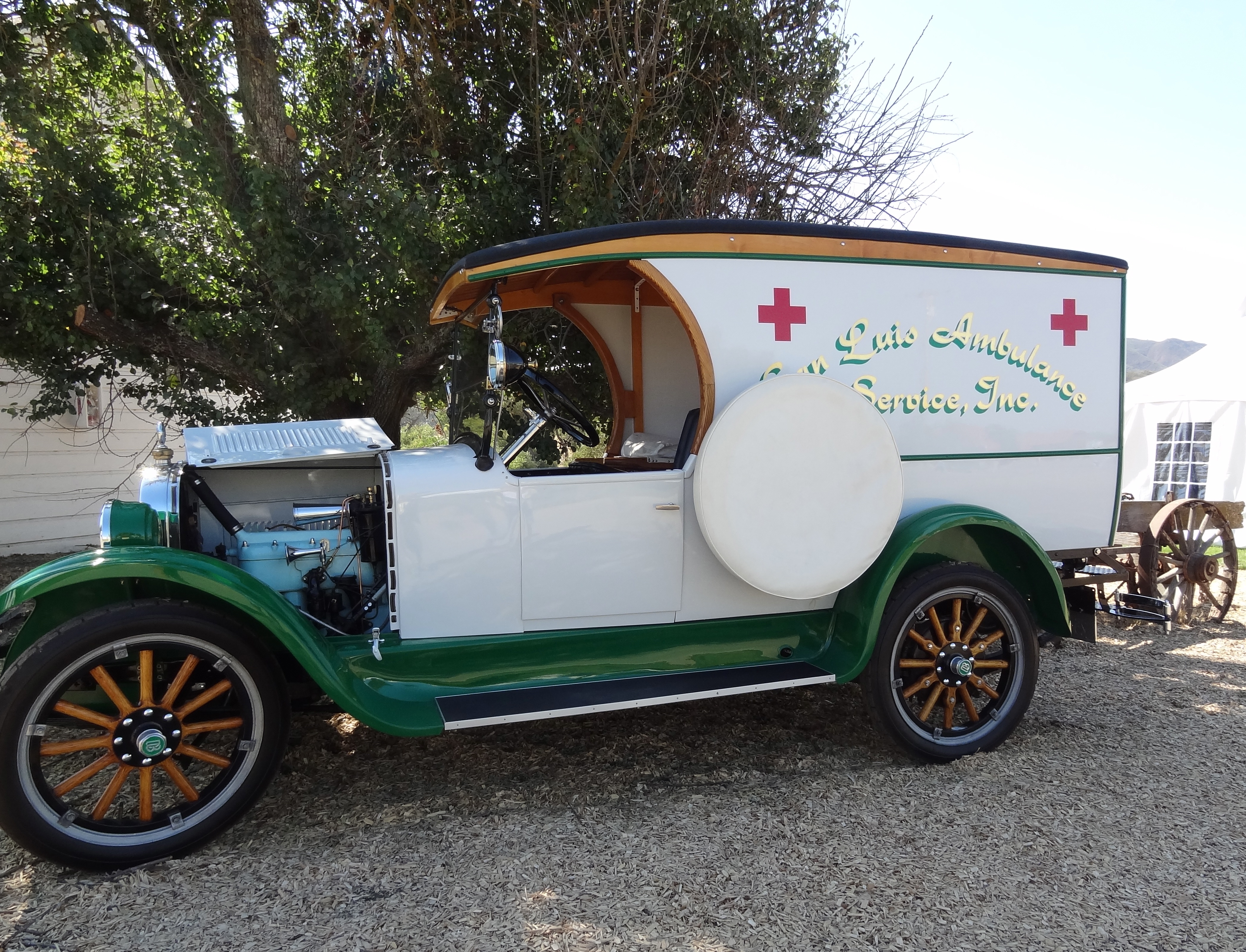 1925 Dodge ambulance, on display at Santa Margarita Ranch